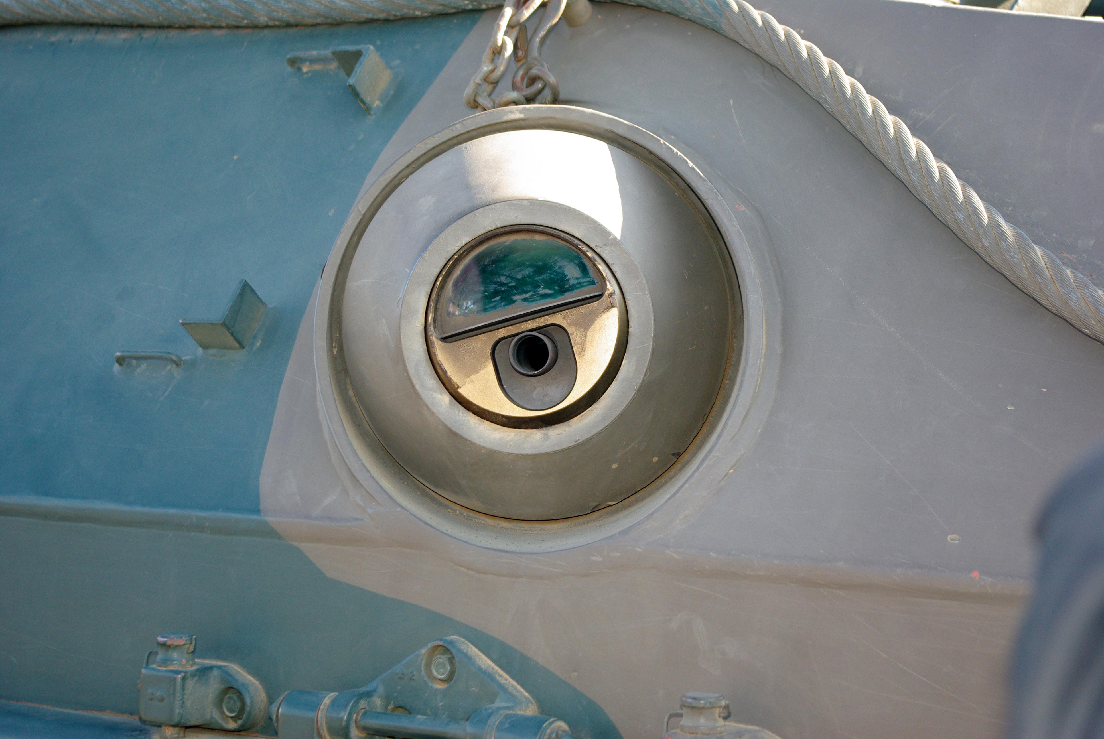 JGSDF IFV Type89(gunport).Taken by Los688,in Narashino,Japan,at 08-Jan-2012,JGSDF 1st Airborne Brigade 2012 first drop manuver.PD-self ja:89式装甲戦闘車 2012年01月08日、普通科教導隊、習志野演習場で撮影。銃眼が開いた状態